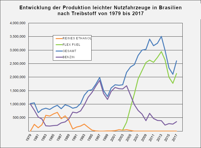 Graph showing historical series of gasoline, neat ethanol, and flexible fuel vehicles production in Brazil, series 1979-2017. Data series taken from the Associação Nacional dos Fabricantes de Veículos Automotores (Brazilian National Association of Carmakers), available at [1]. Graph built with Excel and converted to PNG with Photoshop Elements